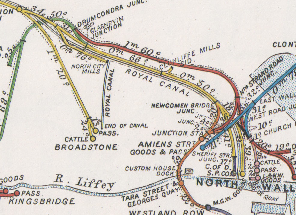 Railway Junctions in Dublin - showing all the mainlines rail systems and their termini and connections